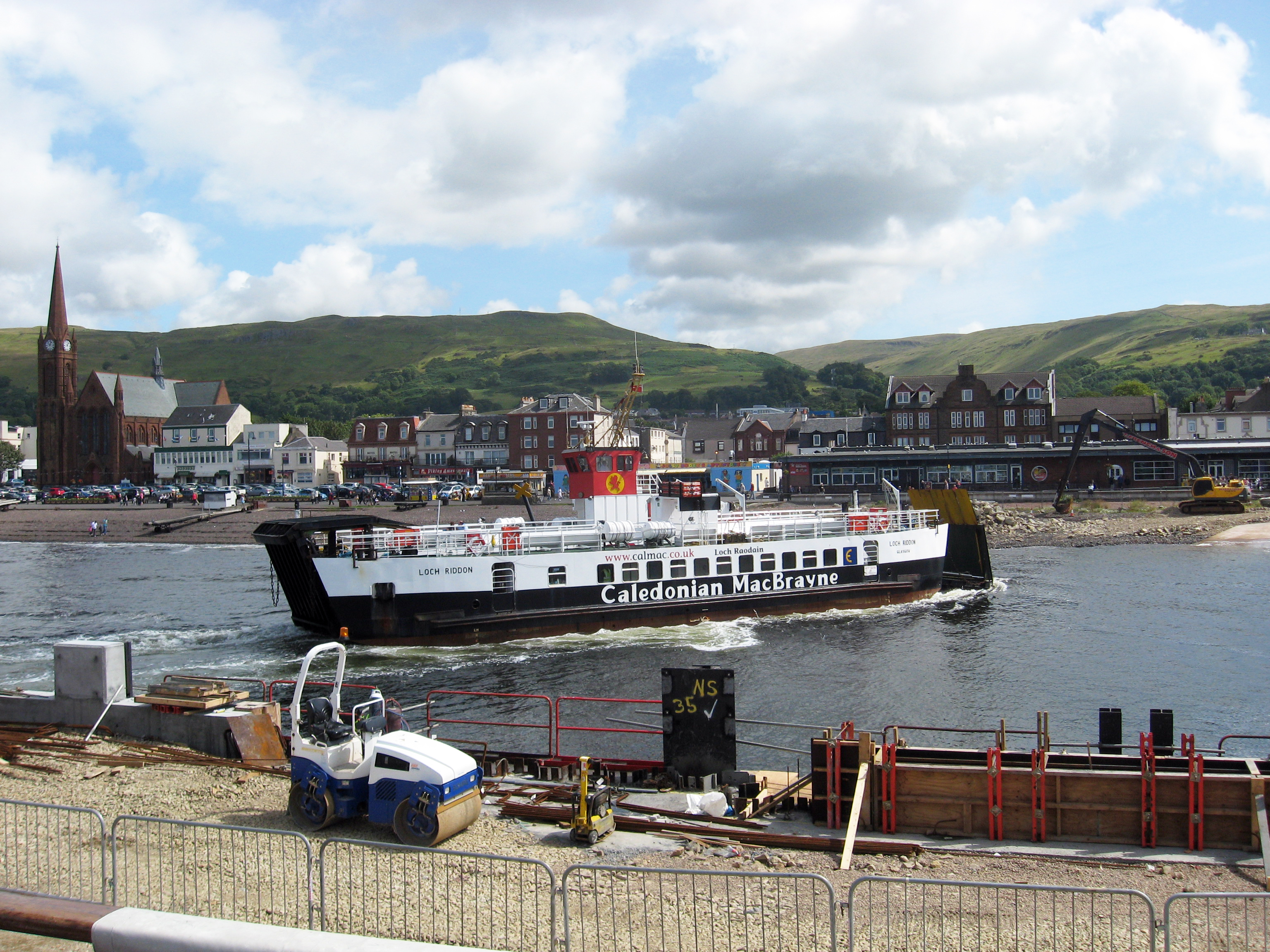 Construction work in progress on Largs pier as MV Loch Riddon arrives on the service from Great Cumbrae.